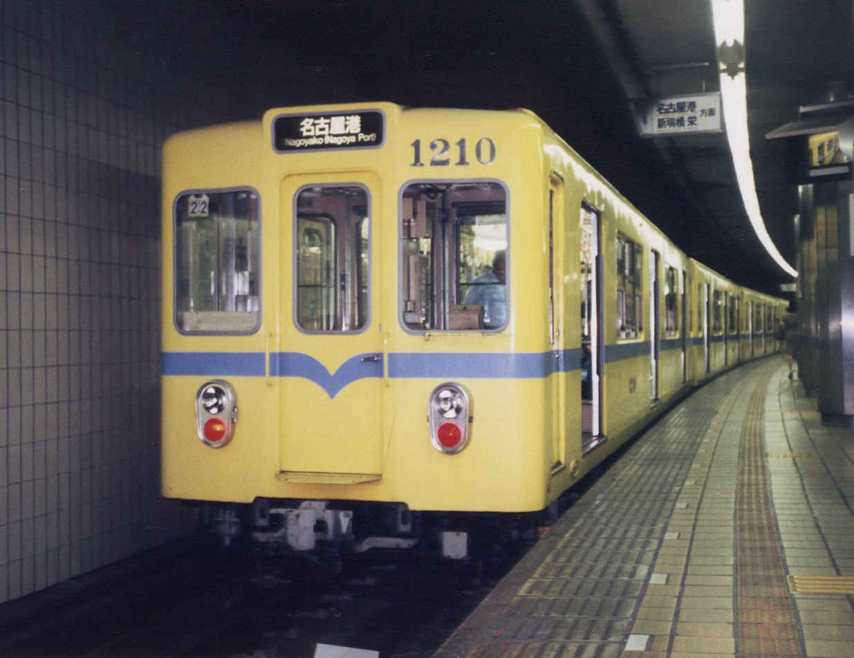 Nagoya Municipal Subway 1200 series EMU at Ōzone Station